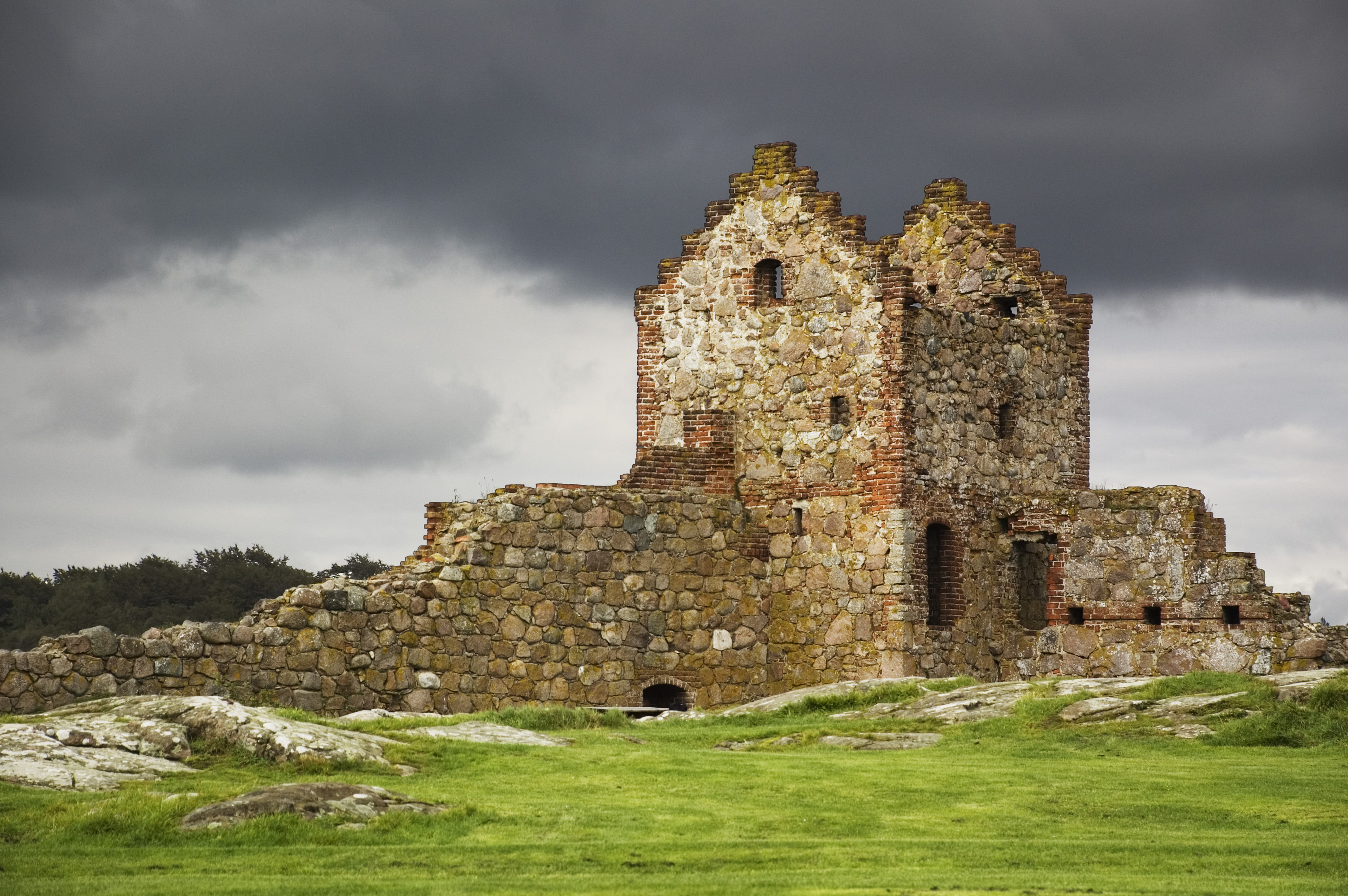 Hammershus Castle, Bornholm, Denmark